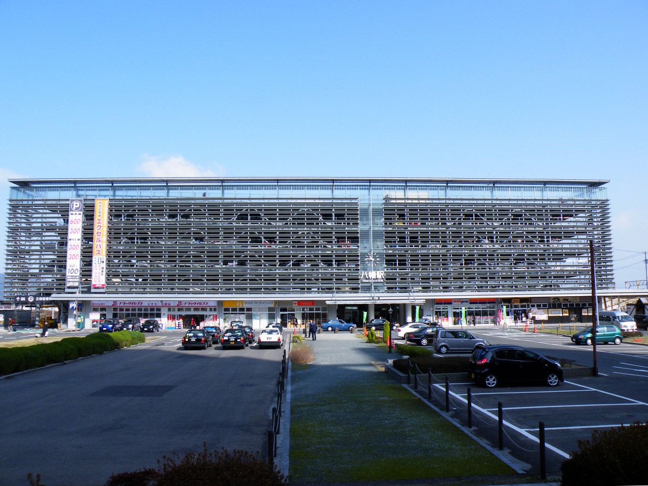 JRKyushu Yahata Station(New Building)